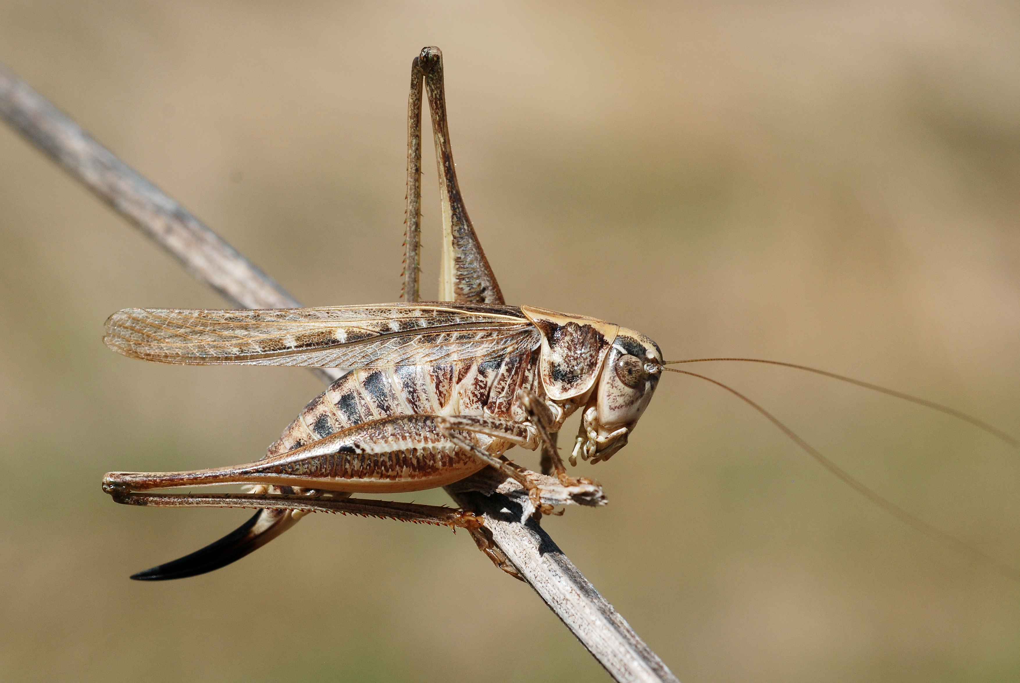 female Platycleis affinis, image taken in Alpes-de-Haute-Provence, Provence-Alpes-Côte d'Azur